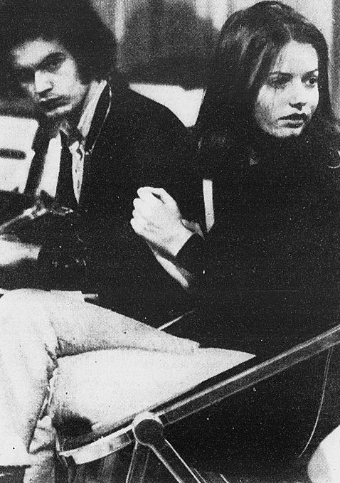 Italian singers Nada and Donatello